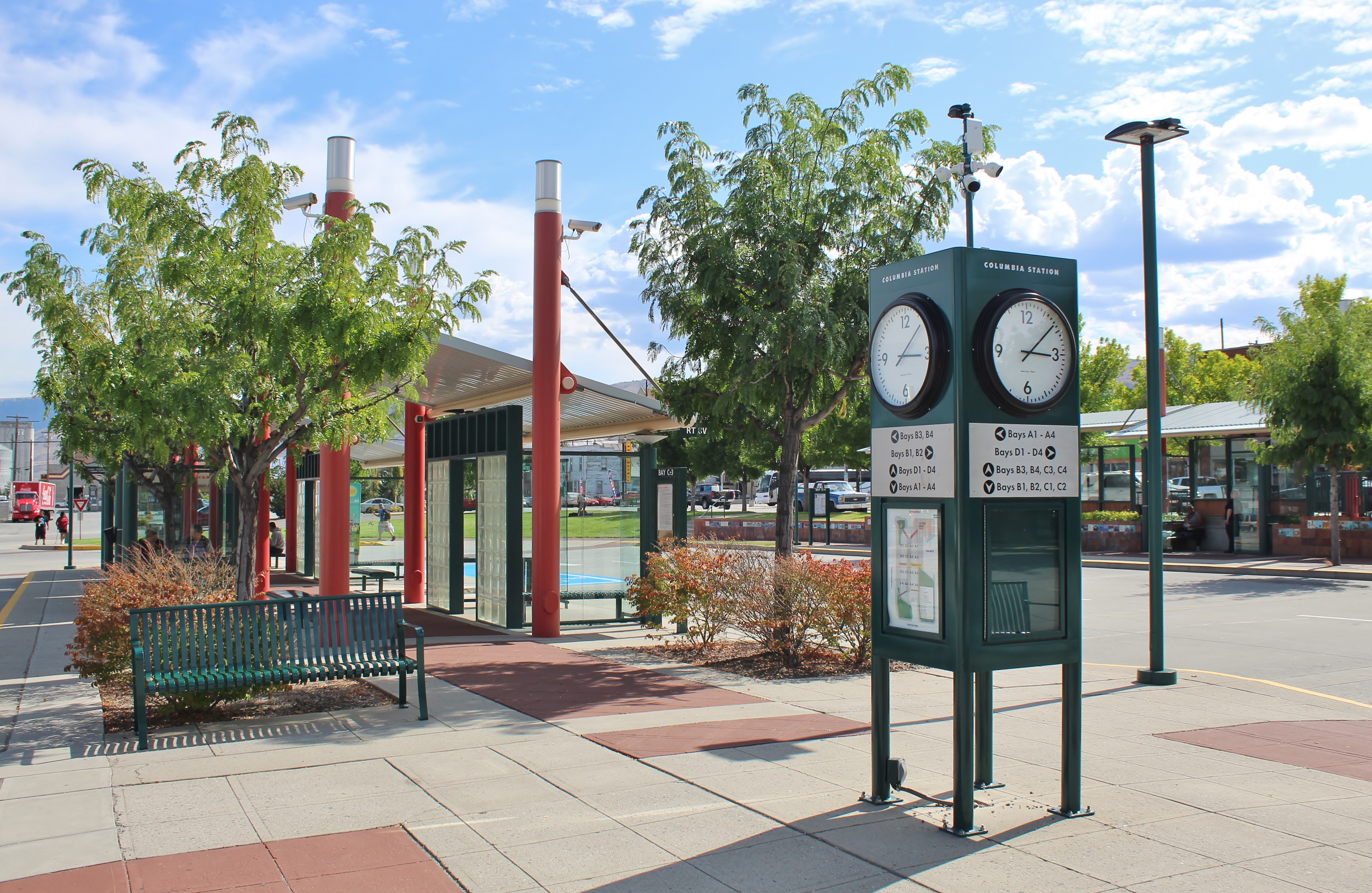 Bus bay amenities in the center platform at Columbia Station, a bus and train station in Wenatchee, Washington.